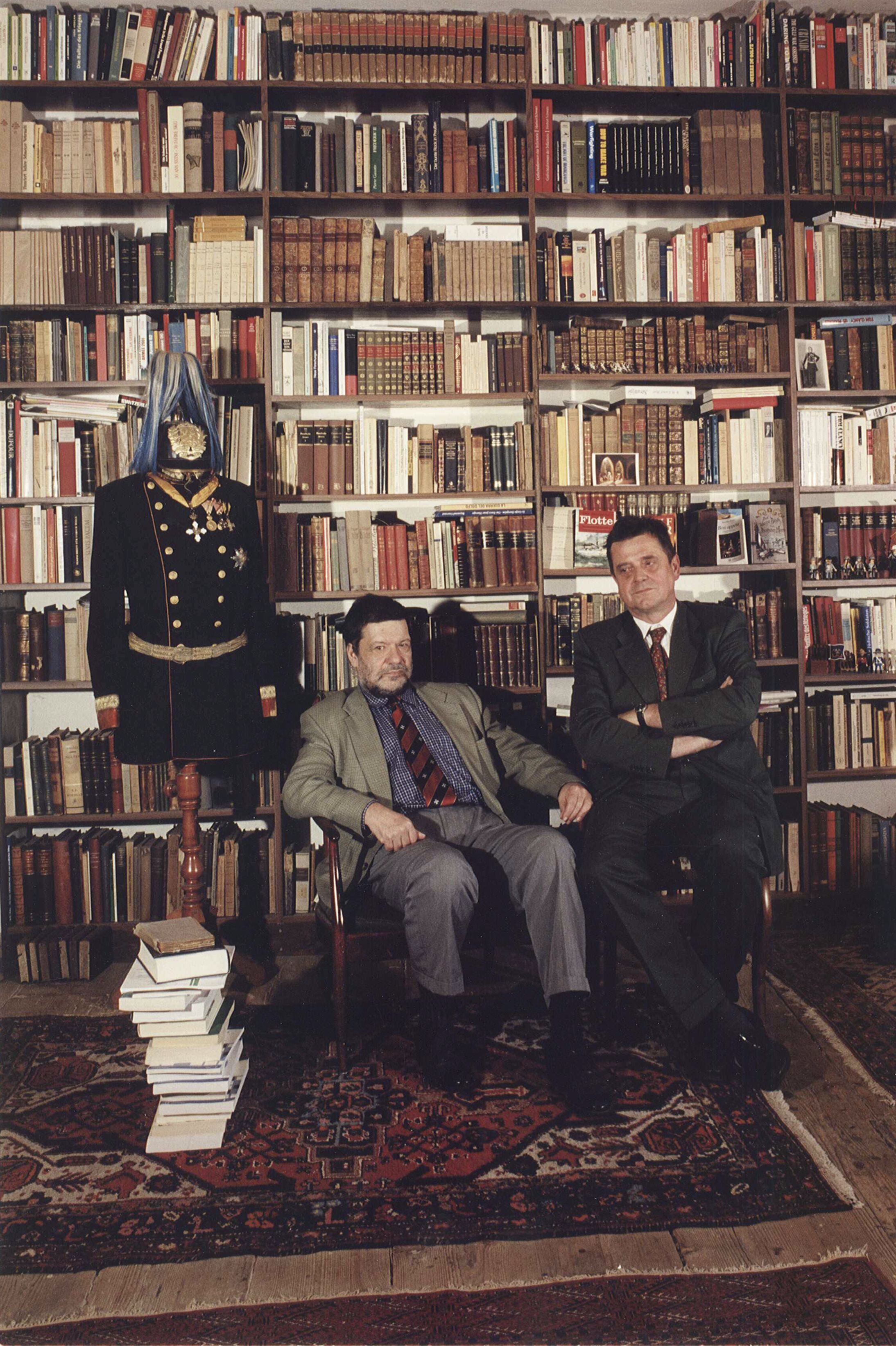 Jean-Jacques Langendorf and Peter Weiß from Karolinger Editorial, Vienna